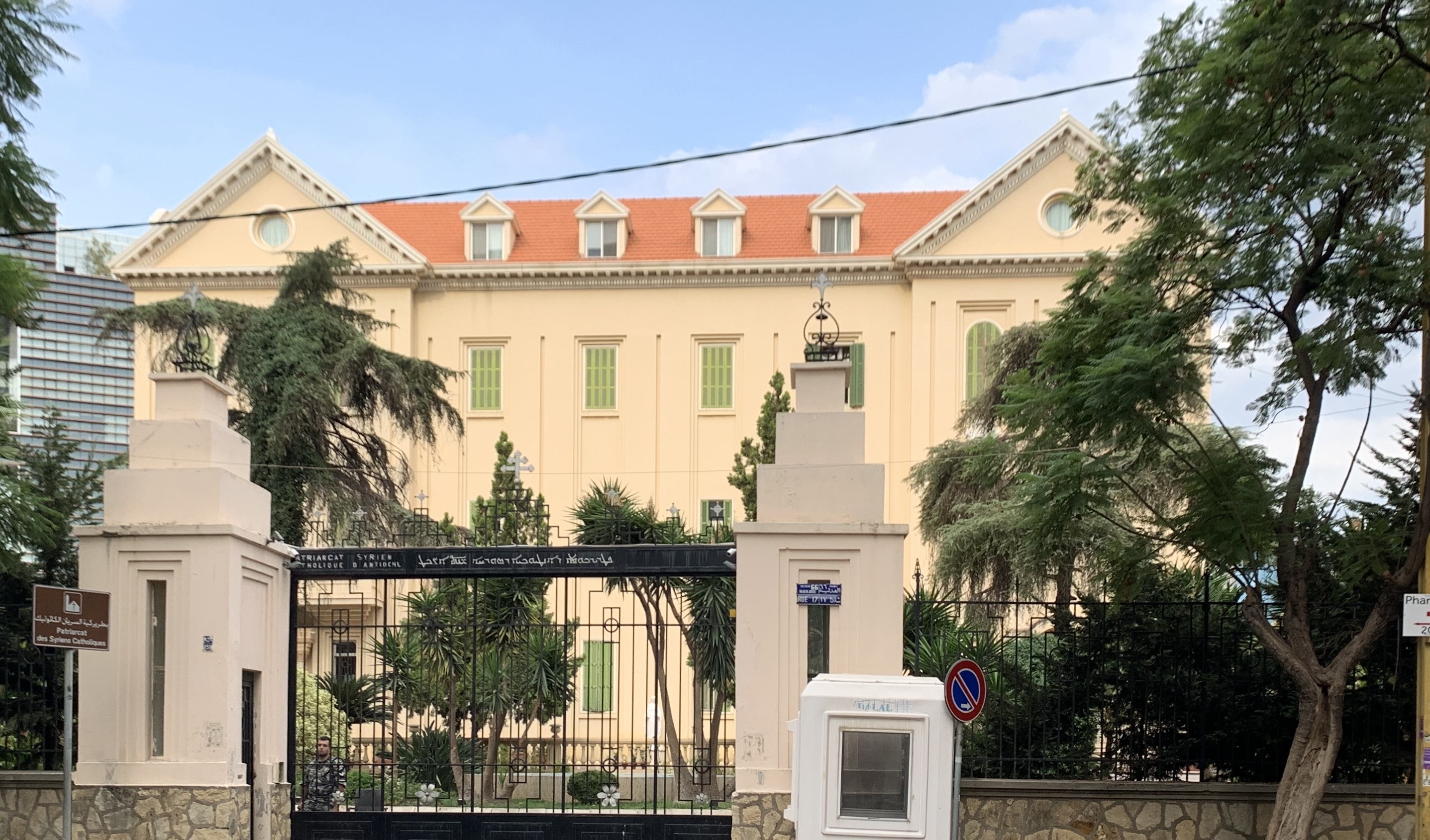 National Museum of Beirut – Syriac Catholic Eparchy of Beirut